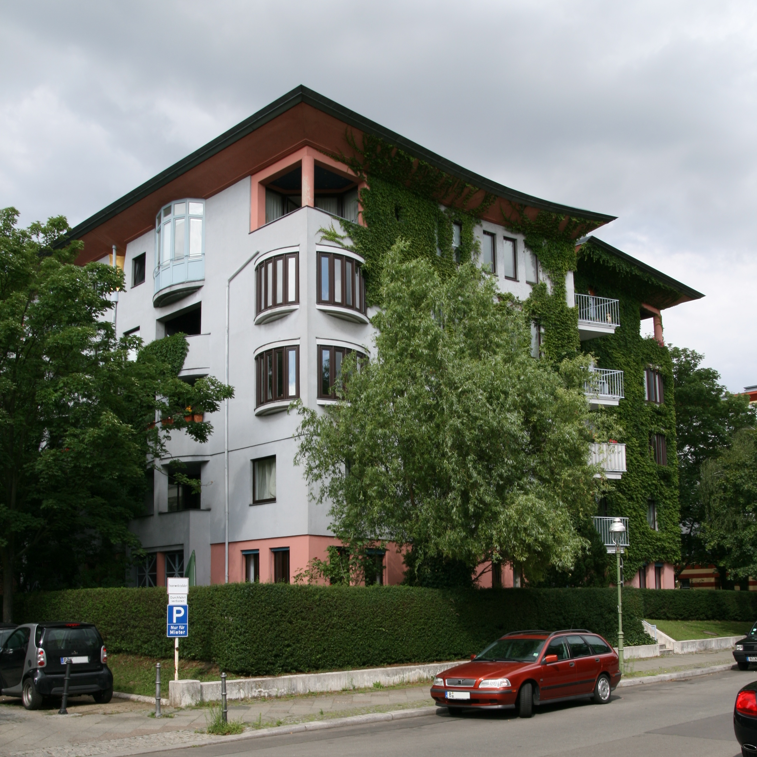 Housing in Rauchstraße, Tiergarten, Berlin.